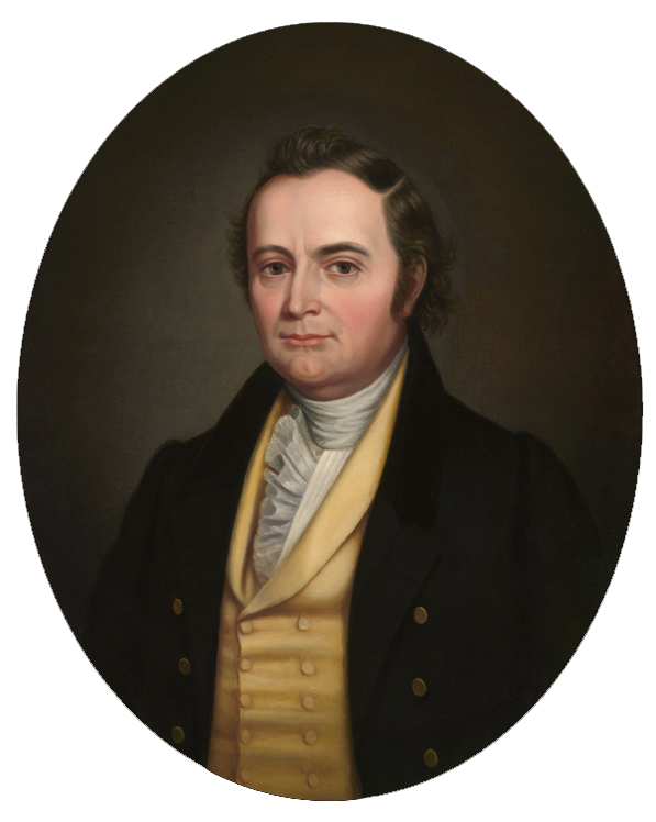 Portrait of John W. Taylor, Speaker of the United States House of Representatives, by Caroline L.O. Ransom